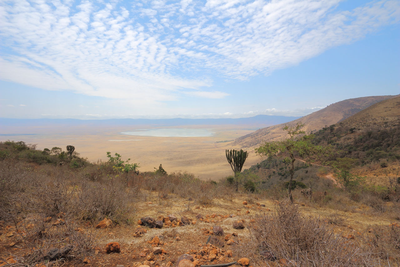 Basin of Lake NgorongoEesti: Ngorongo järve nõgu